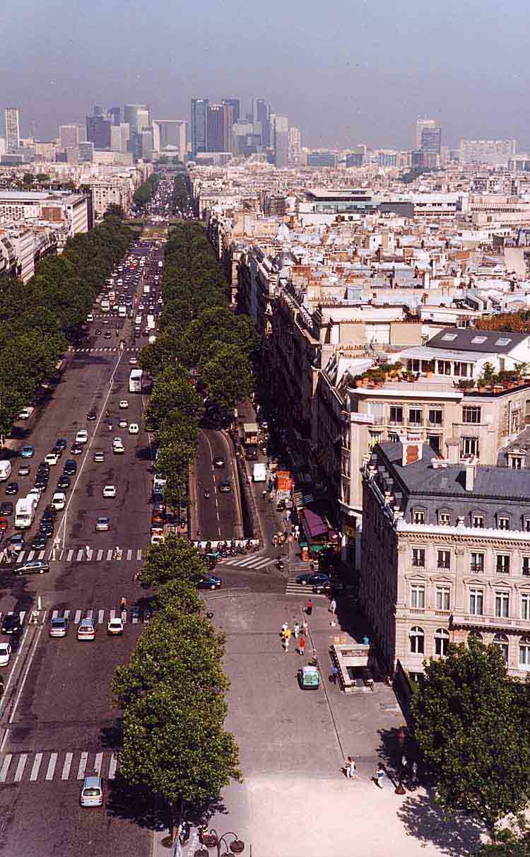 Avenue de la Grande Armée, seen from the Arc de Triomphe, with La Défense on the horizon.